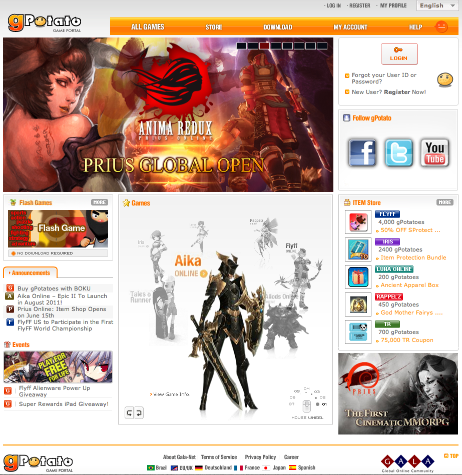 Gala Inc. owns gPotato and took this screenshot for their Wikipedia page.